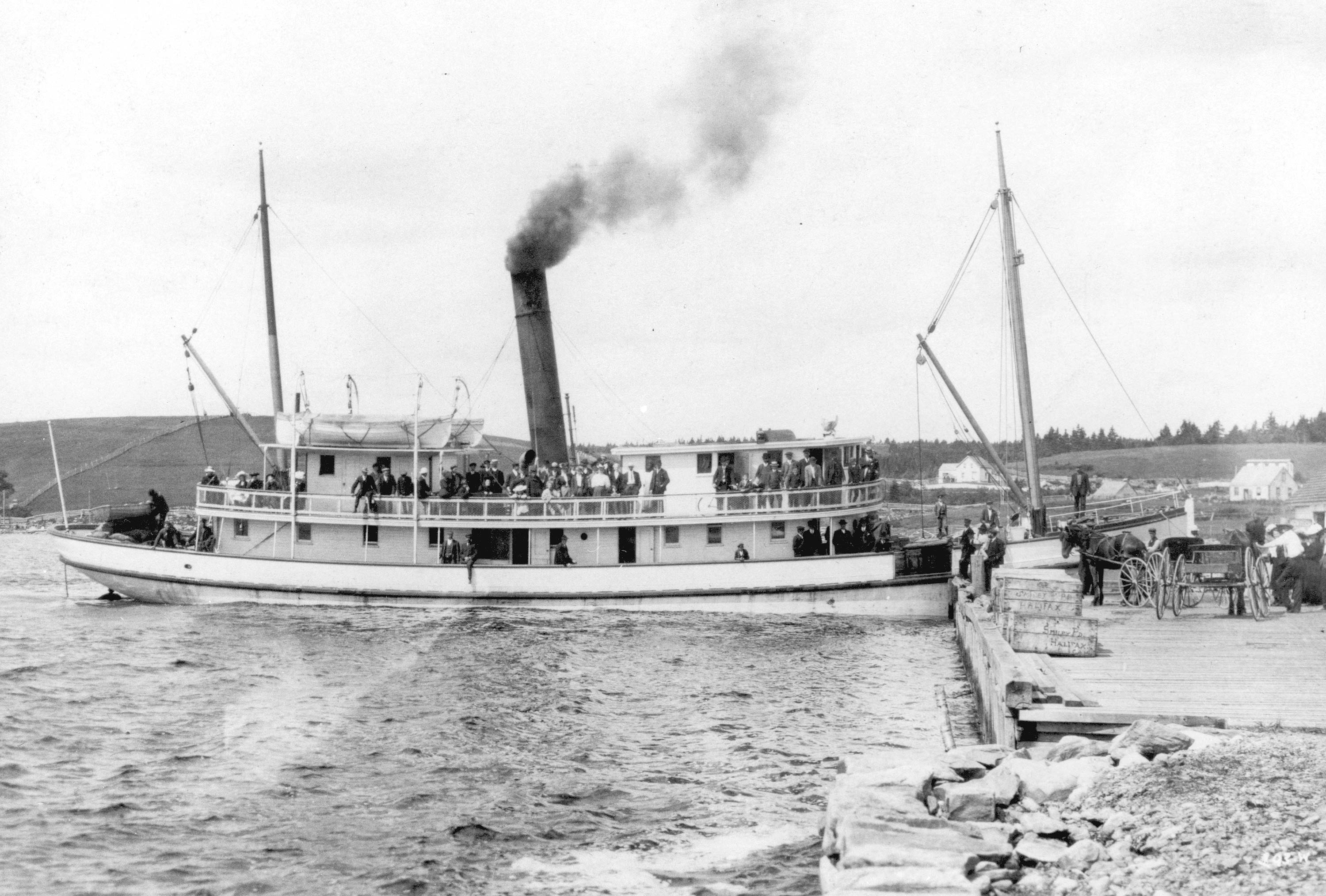 211-ton steamer Dufferin at the Government Wharf, Port Dufferin, Nova Scotia, with Smiley & Company's lobster crates awaiting Transport to Halifax, Nova Scotia, about 1910. The steamship service to Sheet Harbour began about 1890 and in subsequent years the City of Ghent, Wilfrid C, Strathcona, Dufferin, Margaret, Scotia, Chedabucto and various other steamers called at Eastern Shore ports. Dufferin began service in 1905; leaving Halifax every Thursday at 10 p.m. and arriving in Port Dufferin the next morning at 5:30 a.m., weather permitting. She then called at Moser River, Ecum Secum and Guysborough County ports. Dufferin carried passengers and a general cargo usually consisting of feed, hay, kerosene and groceries. On the return trip to Halifax she called at the same ports, collecting lumber and lobsters in the spring. On arrival in Halifax, the crates of lobsters were dumped into the water until the next morning, when they were transported by the Dominion Atlantic Railway to Yarmouth and then on to Boston.